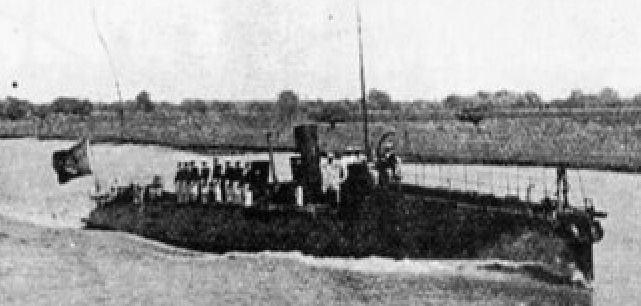 A Romanian Sborul-class torpedo boat/destroyer